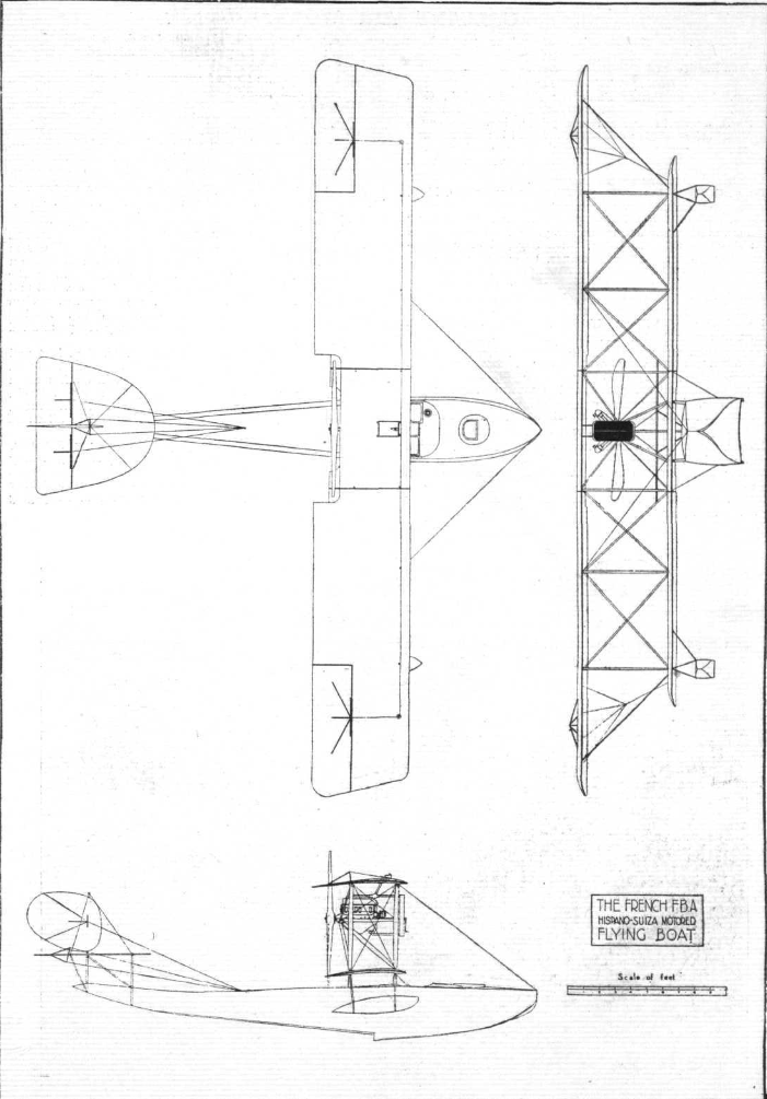 The FBA H flying boat from World War 1